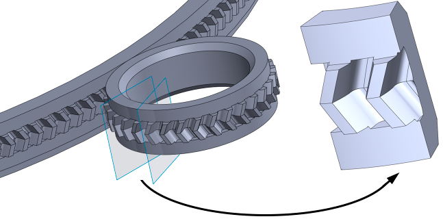 Herringbone bearing gears engagement with erlaged view of couple of teeth